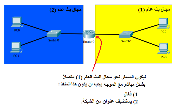 The directly connected route and the conditions for its creation.